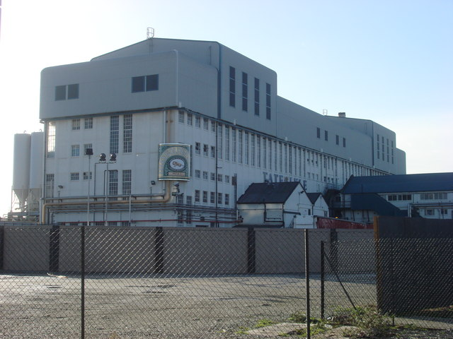 Tate & Lyle building A Tate & Lyle owned building taken from underneath the Docklands Light Railway line. This structure carries an advert for "LYLE'S GOLDEN SYRUP" on its corner.